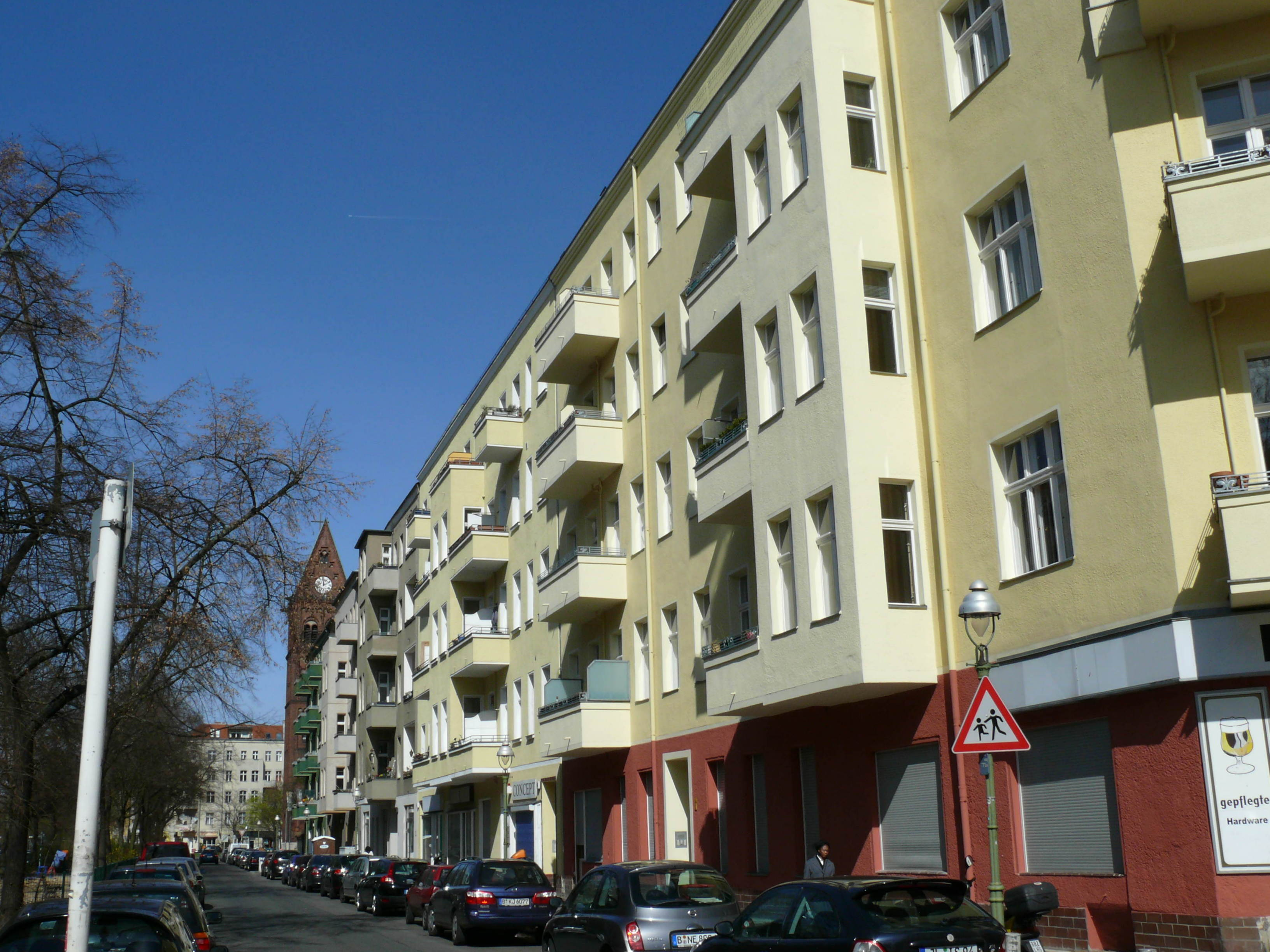 Berlin-Wedding Antwerpener Straße